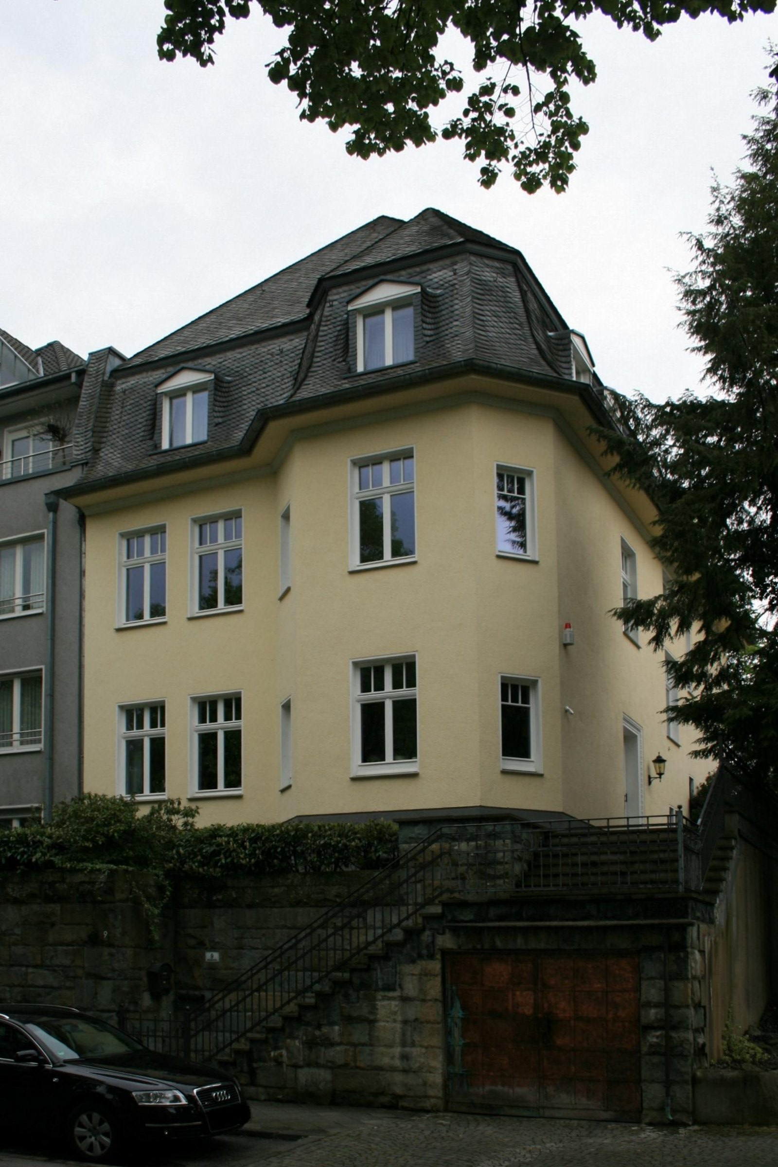 Cultural heritage monument No. M 043 in Mönchengladbach